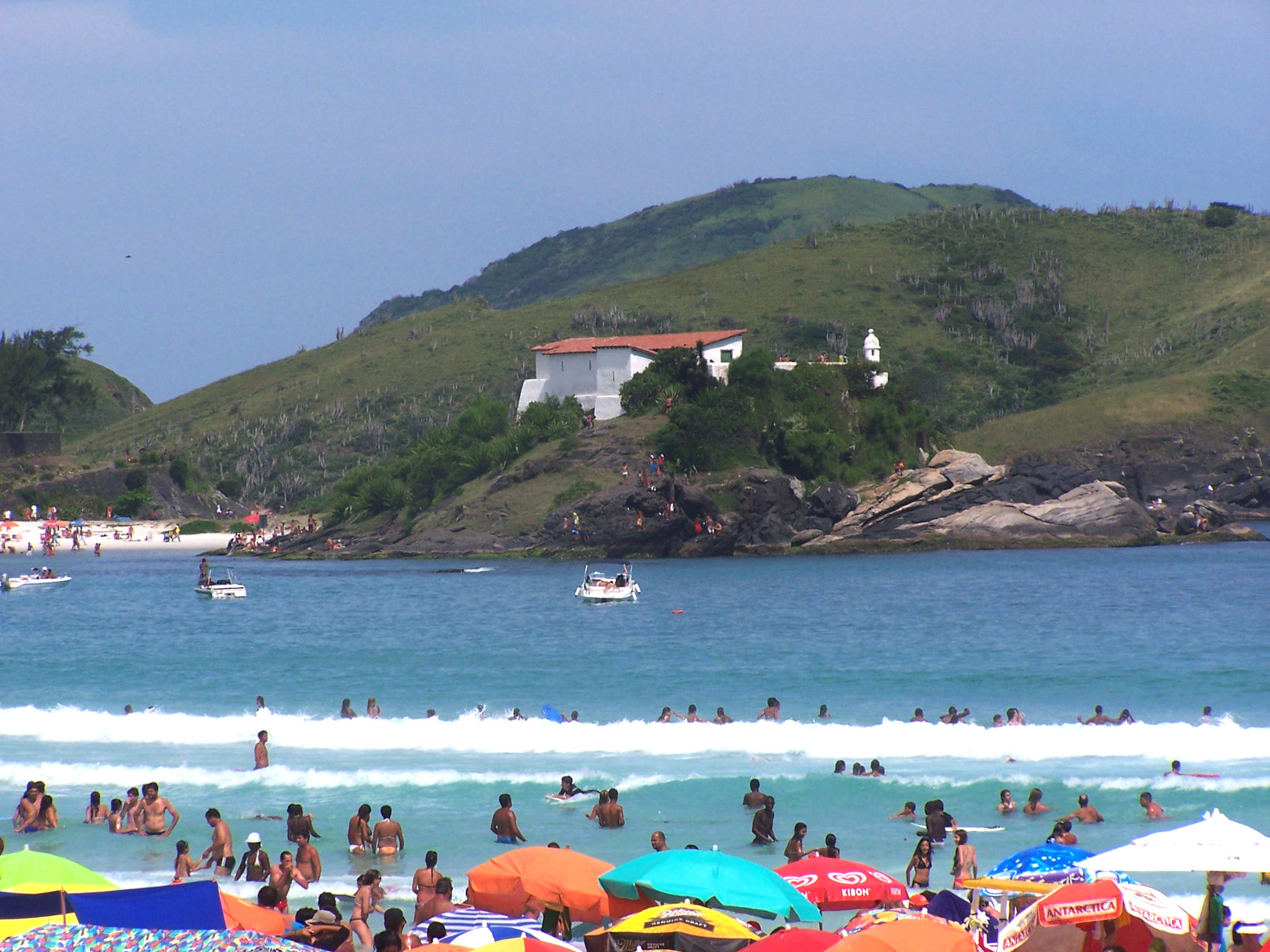 Sao Matheus Fortress in Cabo Frio, Brazil